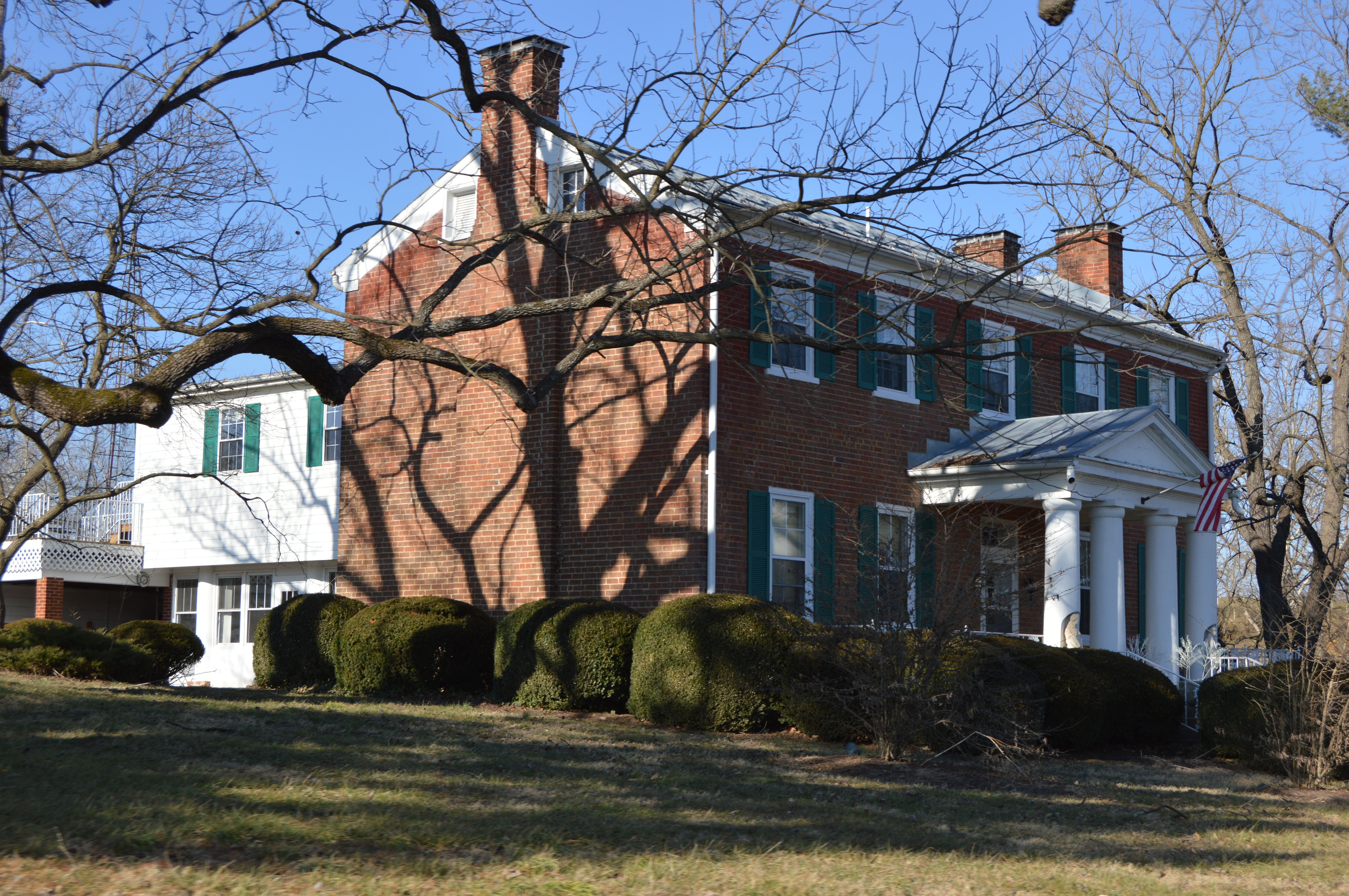 Front and western side of the Cave Hill Farmhouse, located at 9780 Cave Hill Road southwest of Elkton in Rockingham County, Virginia, United States. Built in 1847, it is listed on the National Register of Historic Places.